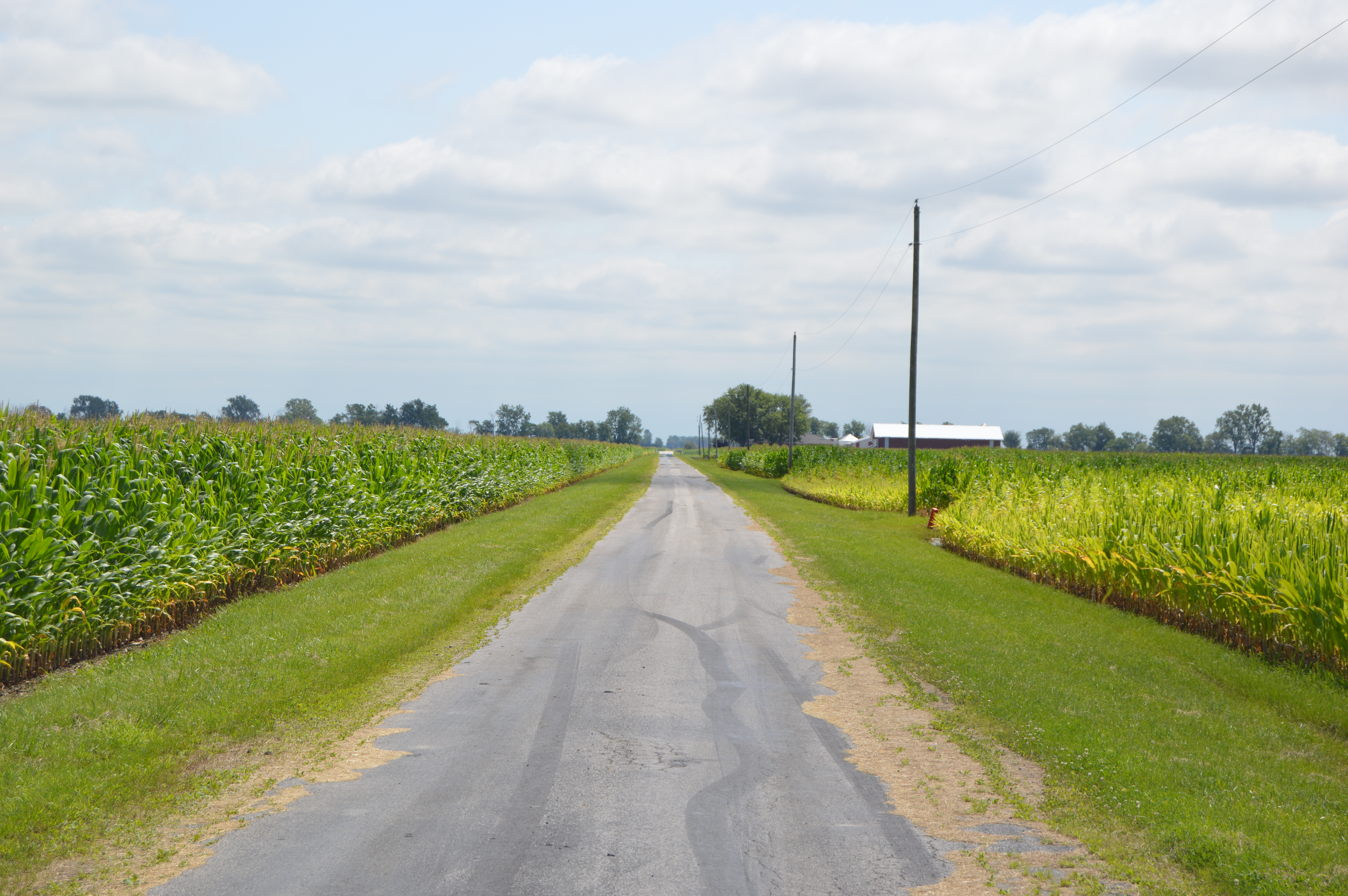 Cornfields produce a slight tunnel effect on Dunn Road southeast of Deshler in far southwestern Jackson Township, Wood County, Ohio, United States.